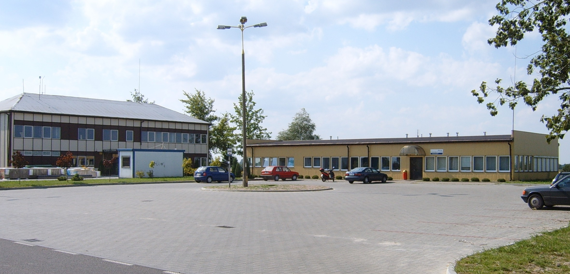 Wysokie - Station of Broad Gauge Metallurgy Line "Zamość Bortatycze", Poland